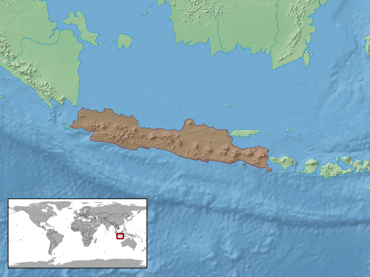 geographic distribution of Calamaria linnaei (Native: Indonesia (Jawa))